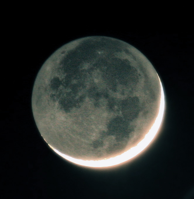 500 years ago, Leonardo da Vinci explained the phenomenon when he realized that both Earth and the Moon reflect sunlight. The dim light is reflected from the Earth to the Moon and back to the Earth as Earthshine. The bright crescent is plain ole moonshine. As seen this evening